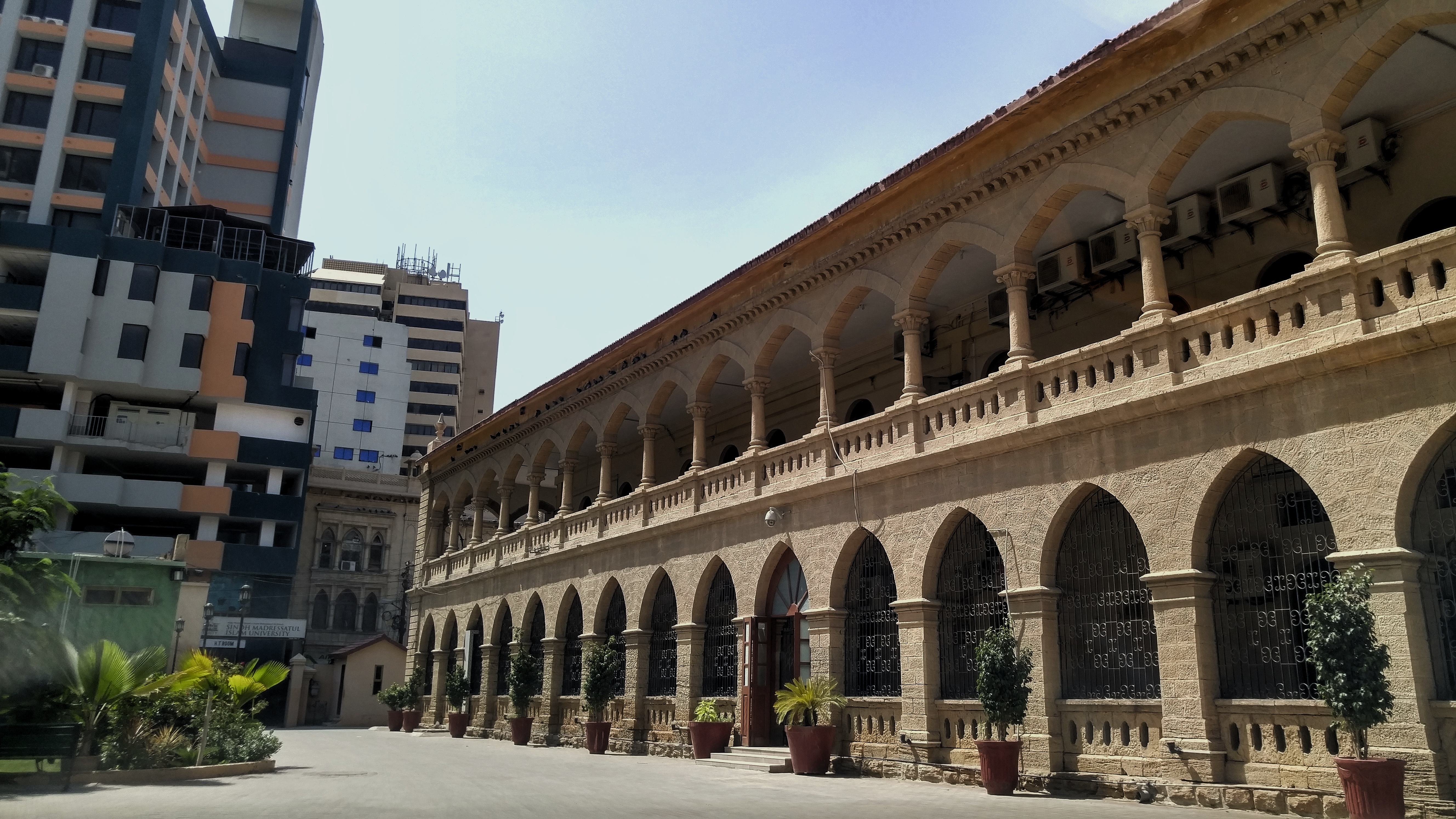 Sindh Madrasatul Islam University This is a photo of a monument in Pakistan identified as the SD-P-230